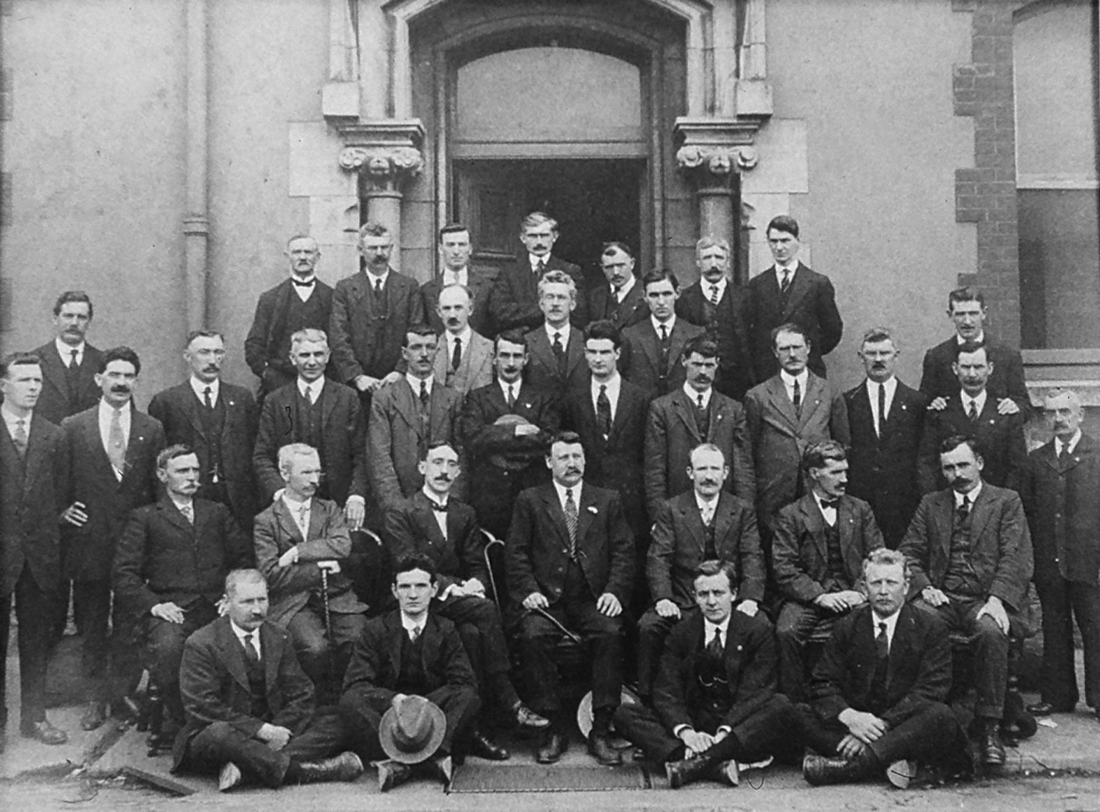 Limerick United Trades and Labour Council, 1919 - The Limerick Soviet